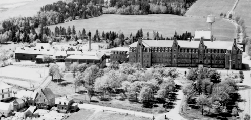 The Saint-Joseph College in Memramcook, New Brunswick before 1933.